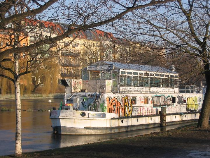 Landwehrkanal in Berlin-Kreuzberg. Urbanhafen, theater-boat. Opposite Fraenkelufer.